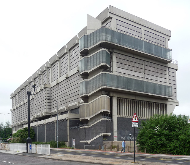 Electricity Substation, Moore Street, Sheffield. As Pevsner remarks, "a little known but outstanding expression of the Brutalist ethos", by Jefferson Sheard & Partners, 1965-68, for the Central Electricity Generating Board.